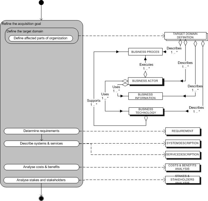 Full process-data diagram for the Acquisition Initiation, created by M.C.A. Luking, April 12th 2006